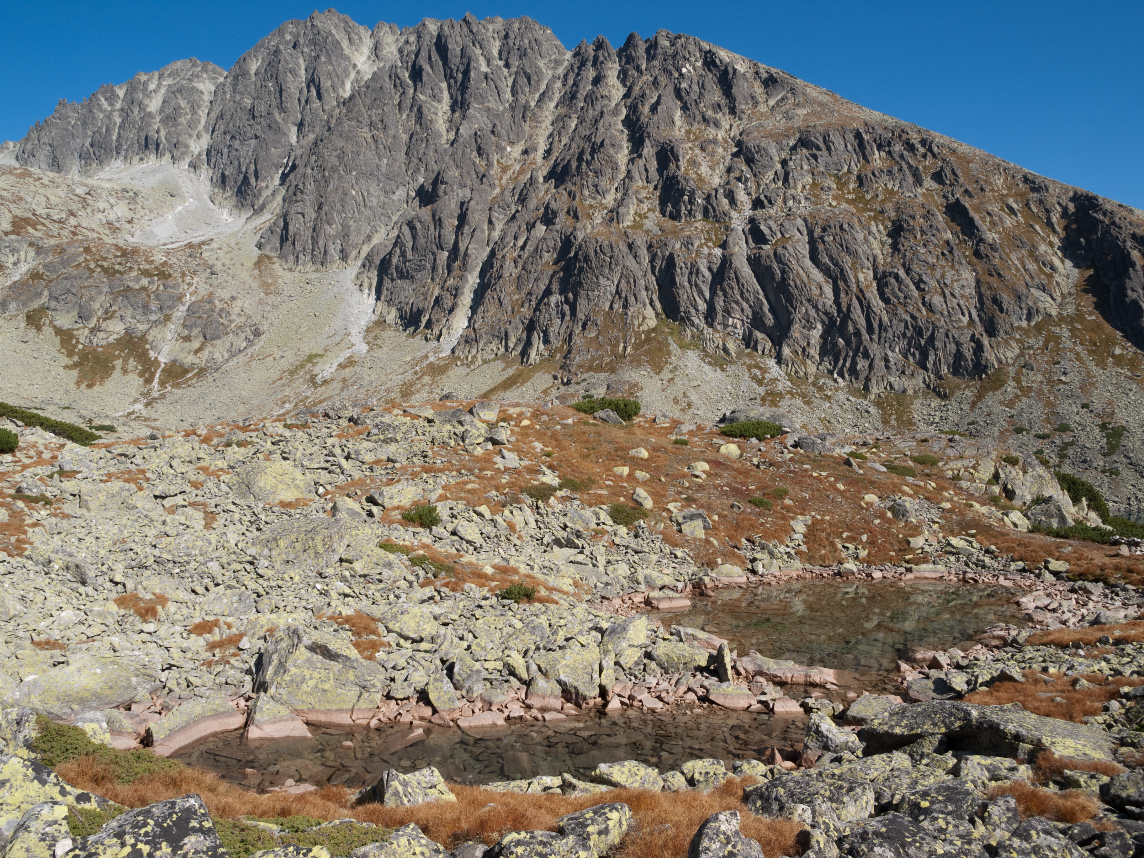 Malé Batizovské pliesko and the massif of Gerlachovský štít.